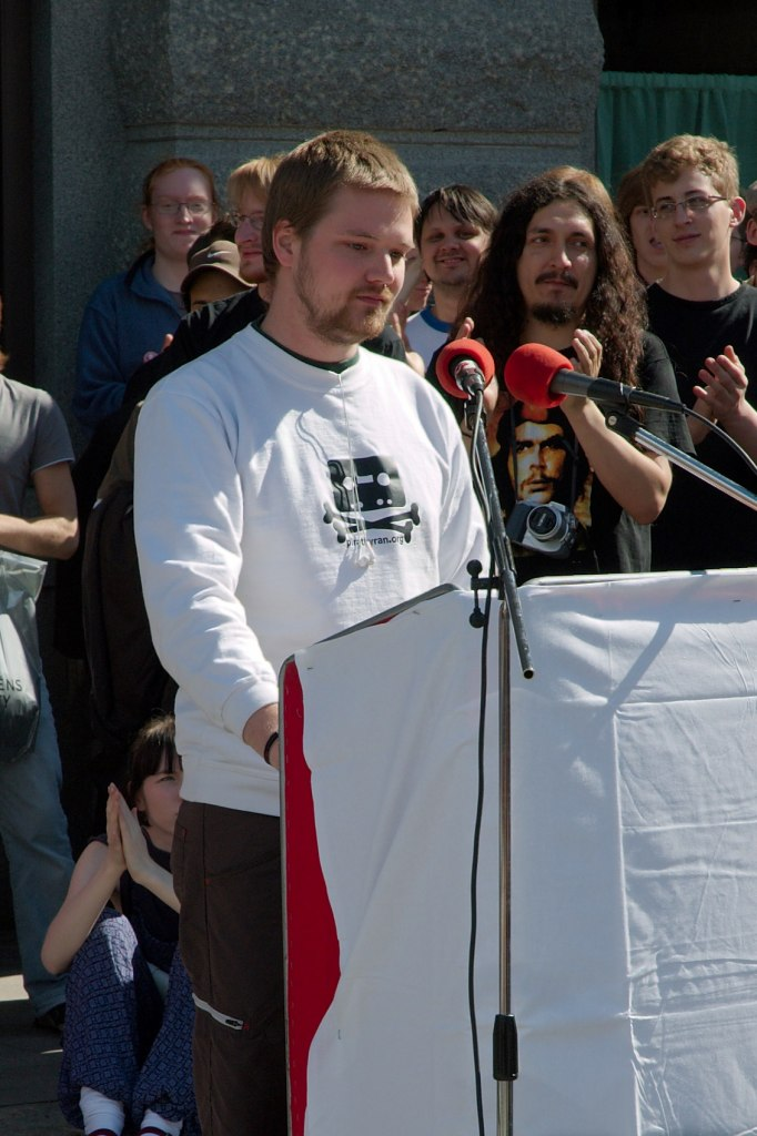 Fredrik Neij speaking at Mynttorget in Stockholm during the June 3, 2006 pro-piracy protest.